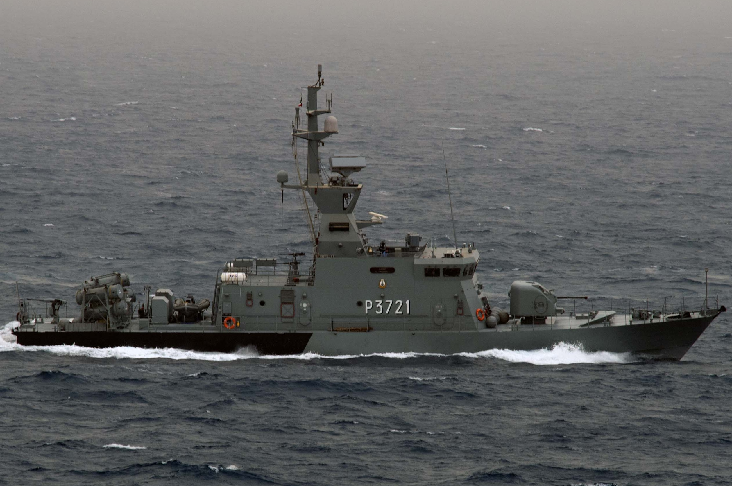 crop of 130521-N-GZ984-197 U.S. 5TH FLEET AREA OF RESPONSIBILITY (May 21, 2013) The Kuwaiti navy Um Al Maradim-class missile attack ship Al Fahaheel (P3721) participates in an exercise with Combined Task Force 523 during the International Mine Countermeasures Exercise (IMCMEX) 2013. IMCMEX 13 is the largest exercise of its kind in the region and will exercise a wide spectrum of defensive operations designed to protect international commerce and trade; mine countermeasures, maritime security operations (MSO) and maritime infrastructure protection (MIP).